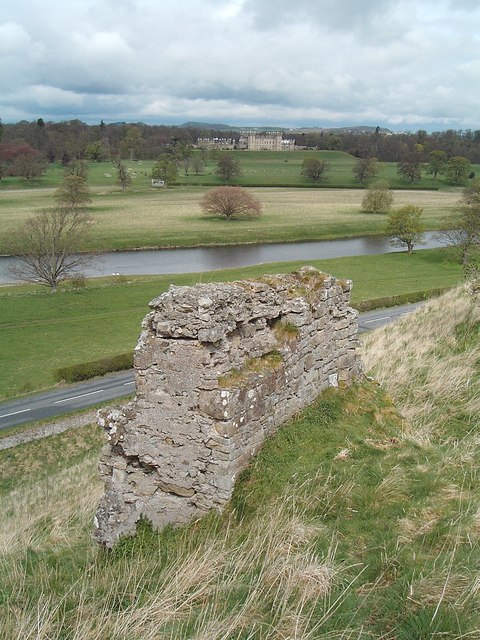 Castles old and new. High on its earthworks on a narrow isthmus between the Tweed and Teviot rivers, Roxburgh Castle (foreground) had strong claims in medieval times to impregnability. Not so! The castle changed hands between the Scots and English no fewer than 10 times in the border wars of the 15th and 16th centuries. Now only a few walls remain of this sometime seat of the Scottish king David 1. Across the Tweed lies elegant, Georgian, Floors Castle, seat of the Innes Kers, Dukes of Roxburghe.